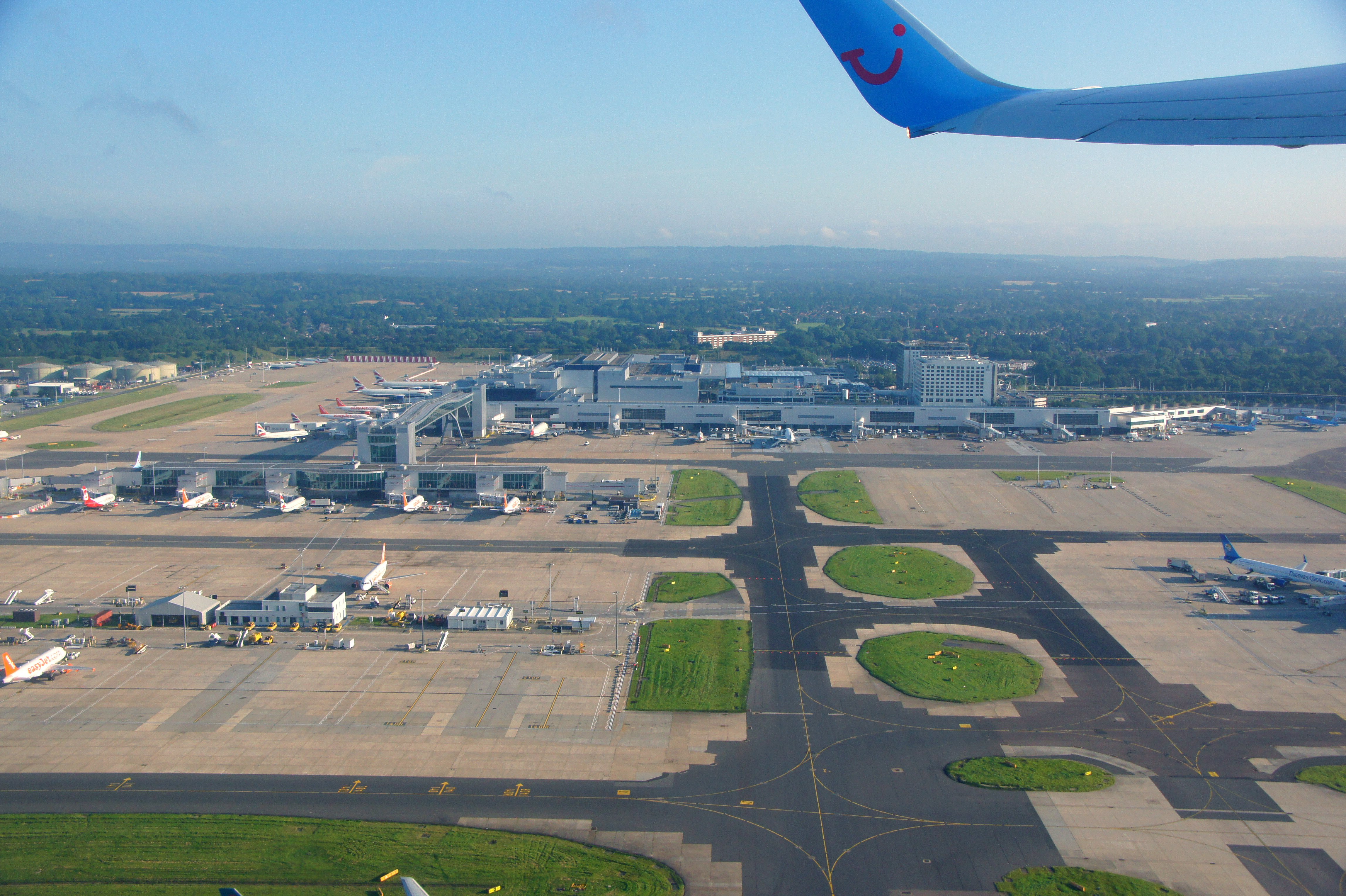 The north terminal at Gatwick Airport, with pier 6 and the sky bridge connecting it to the terminal visible. The airport's older south terminal is out of sight to the right of shot.